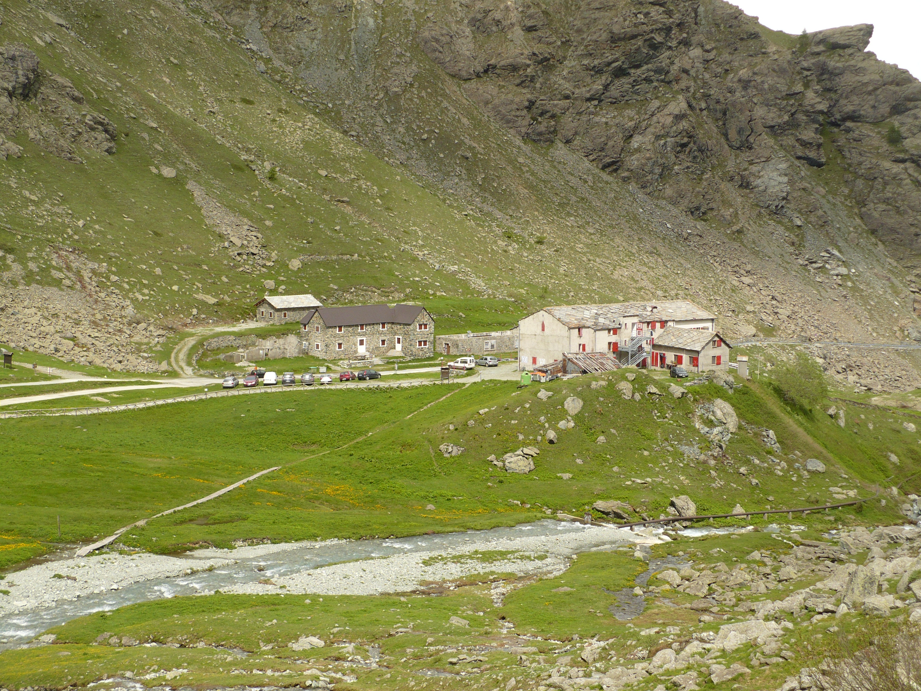 Pian del Re - Valle Po - Province of Cuneo - Piedmont - Italy